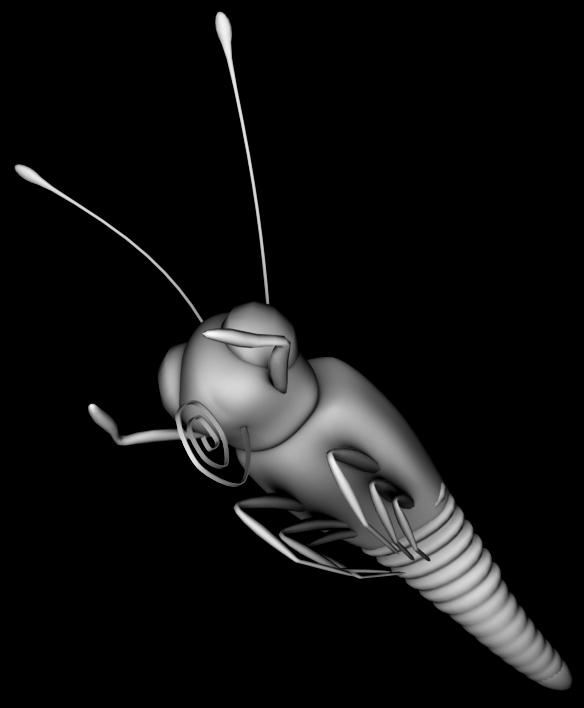 Insect model rendered with diffuse illumination and ambient occlusion.